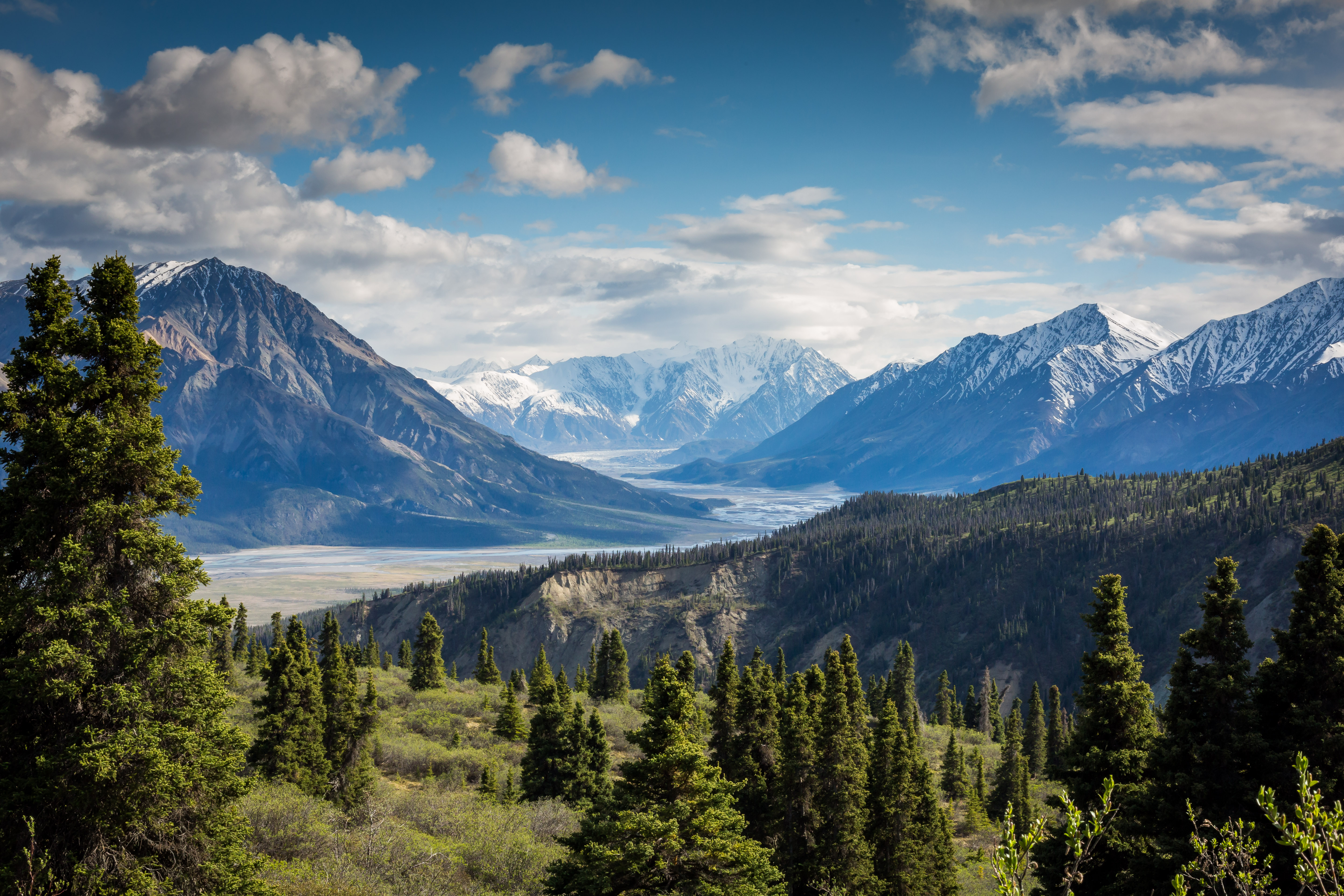 Kluane National Park and Reserve of Canada, Canada